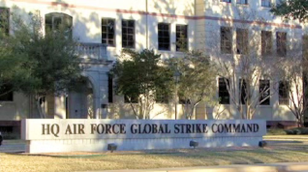 Air Force Global Strike Command - Headquarters, Barksdale Air Force Base, Louisiana